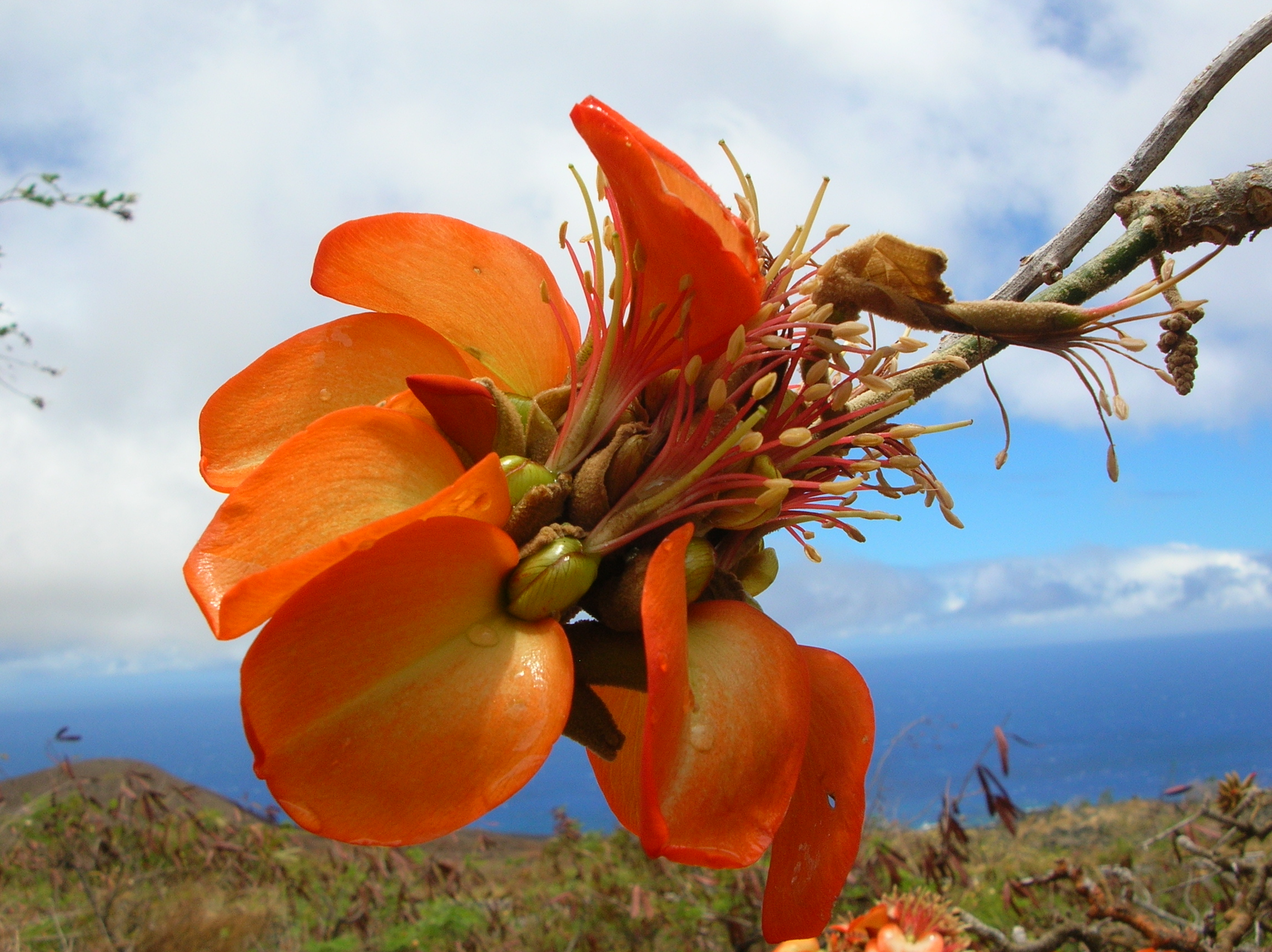 Erythrina sandwicensis (flowers). Location: Maui, Kanaio